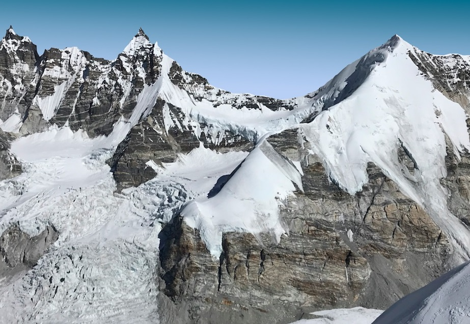 Nupla Khang south face and summit on the right as taken from Tharke Khang in 2017.